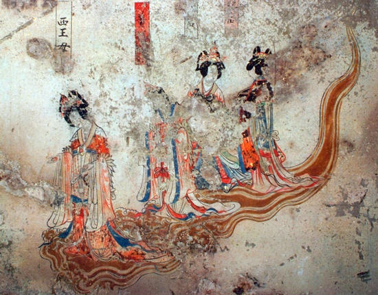 Pao-shan Tomb Wall-Painting of Liao Dynasty: Celestial persons descend to earth.